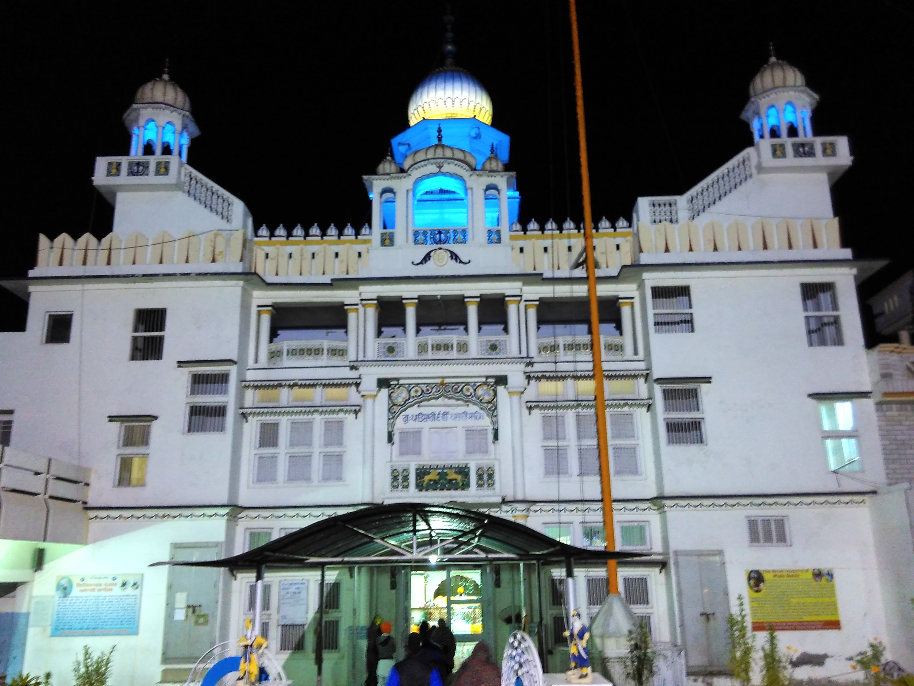 Gurudwara Chevi Patshahi (Plahi Sahib, Phagwara, Punjab)